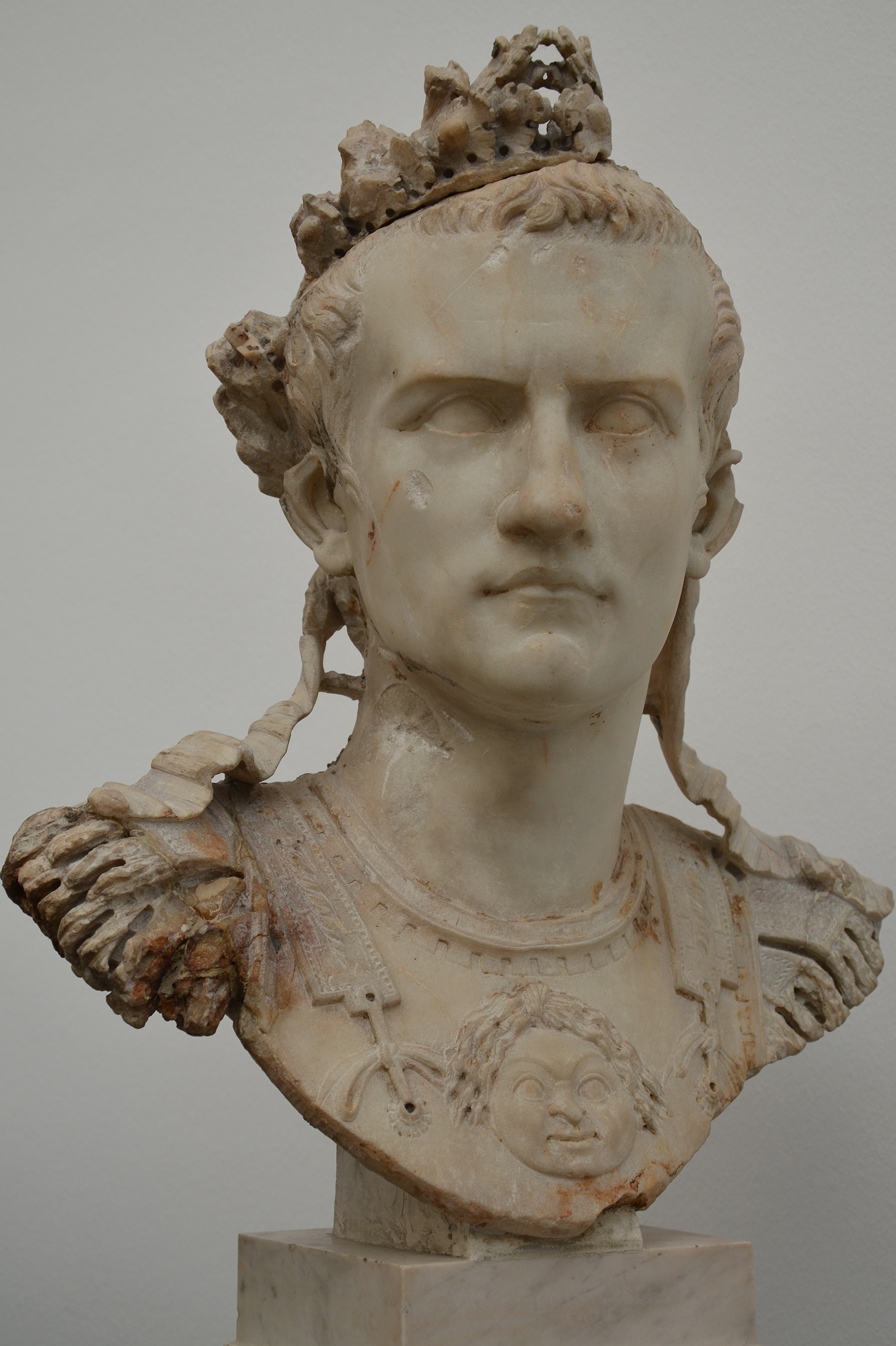 On either side of the high forehead are the sunken temples known from contemporary descriptions of the emperor. The bust is a masterpiece of Roman portraiture.